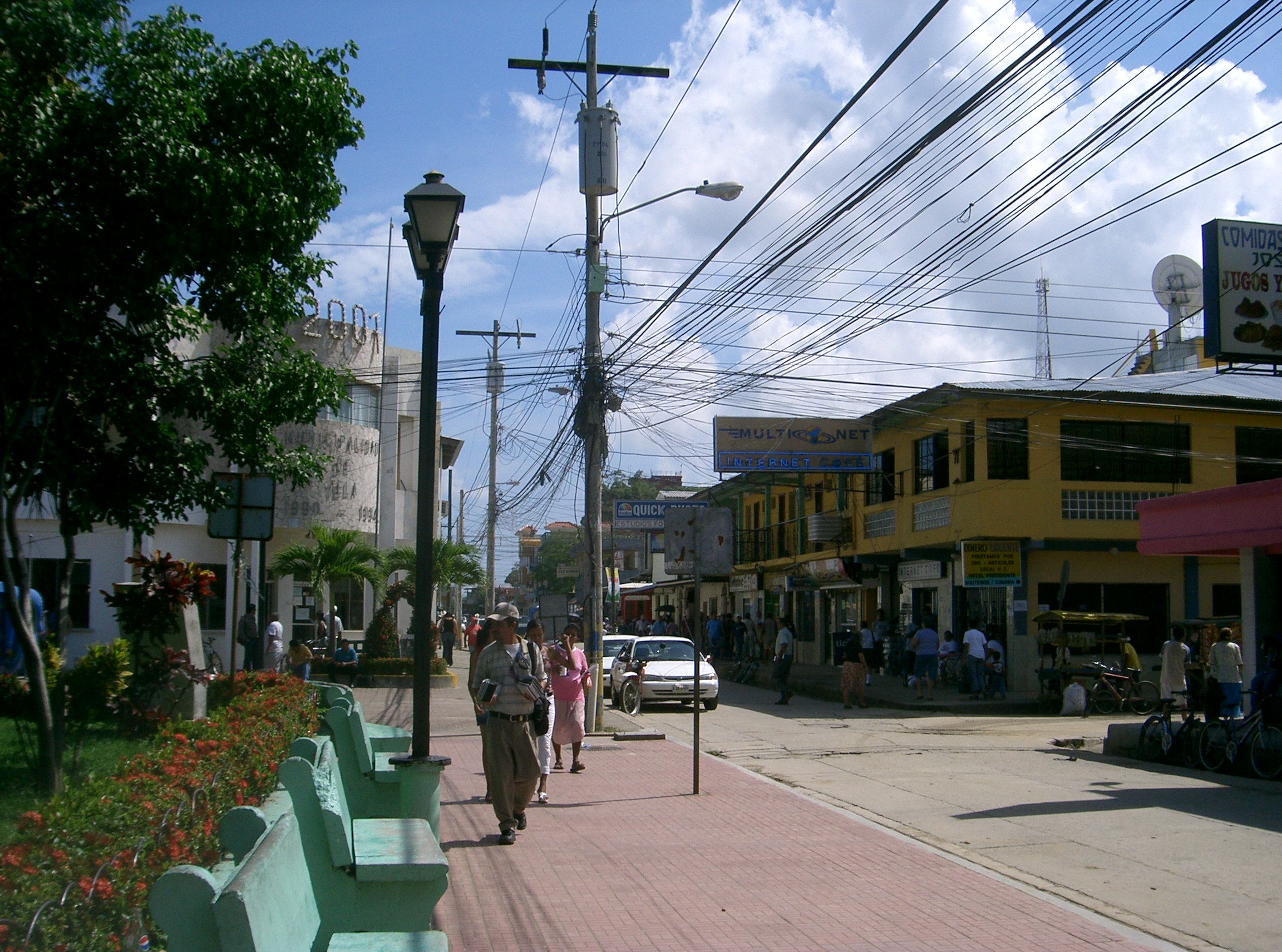 Looking down toward the east of Tela's main street from the southern corner of the central park. Building on the left side is the municipal building. Picture taken by myself (Ricky Ng-Adam) on March 14th 2007.